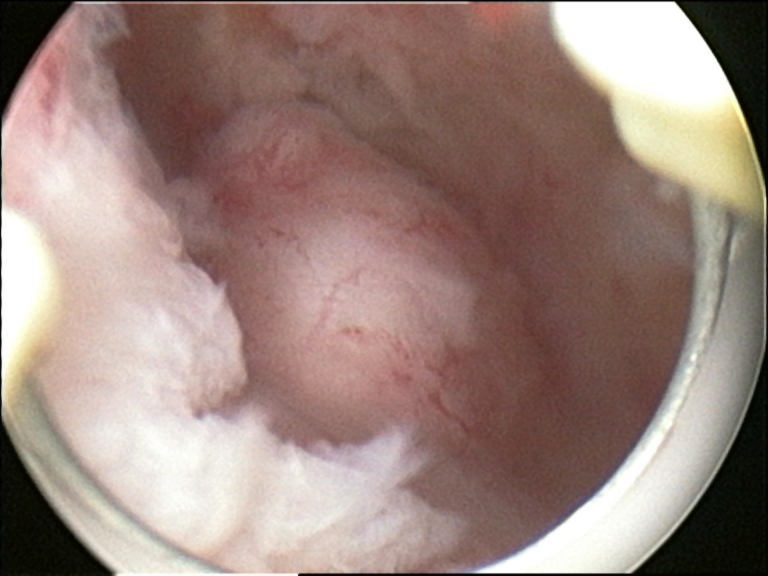 hysteroscopic view of a submucous fibroid of the posterior uterine wall